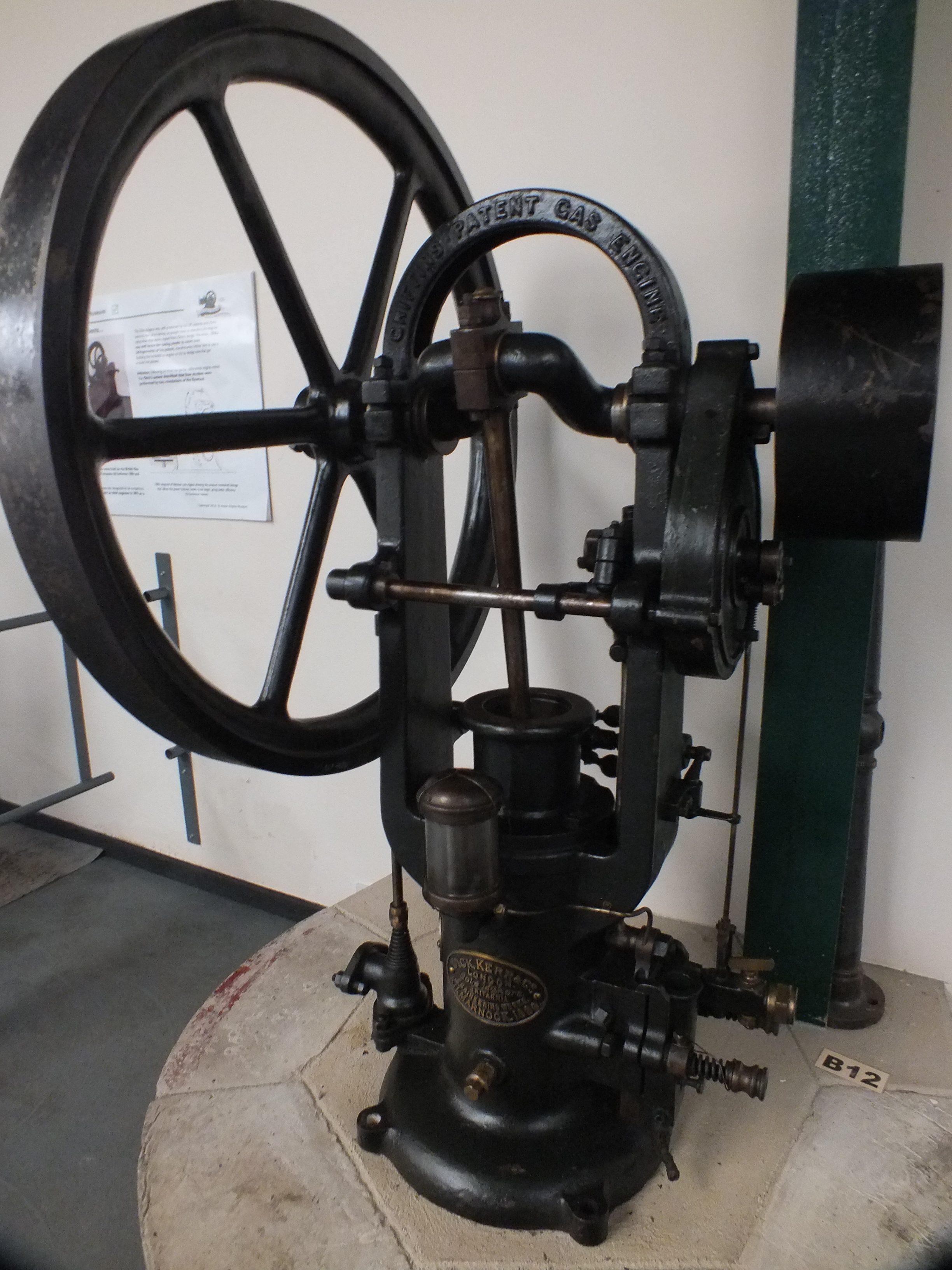 The Anson Engine Museum in Poynton, Cheshire collection. The Otto patent specified 4 strokes- so designers attempted to design engines outside the patent. Samuel Griffin designed the six-stroke engine in 1883. Induction Compression Ignition Partial exhaust Air blast Complete exhaust That was 2 strokes doing nothing- to get around the patent In 1898 Dick Kerr of Kilmarnock bought a Griffin patent to build a six stroke engine- two were made as Ottos patent lapsed in 1890.